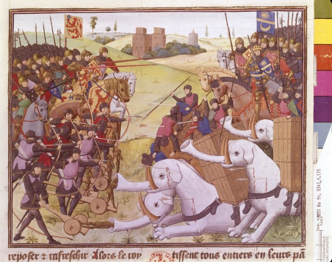 cote cliché RC-A-00326 légende Bataille entre Alexandre et Pôros département Manuscrits occidentaux cote du document FRANCAIS 9342 collection ou fonds Philippe le Bon ; bibliothèque de Bourgogne période du document Moyen âge date du document ou du recueil 1448?-1450? partie de Histoire d'Alexandre. - Bruges folio, pagination Folio 135 auteur(s) Maître de l'Alexandre-Wauquelin (Enlumineur) Wauquelin, Jean (14..?-1452) (Auteur) catégorie Manuscrits à peinture matériau(x) Parchemin descripteur(s) Alexandre III le Grand, roi de Macédoine = Alexandre le Grand ; arc ; armée ; armoiries ; armure ; bannière ; bataille rangée ; bois ; bouclier ; Bucéphale ; canon ; caparaçon ; cavalerie ; cheval ; combat ; éléphant ; flèche ; fond de paysage ; Grec ; Indien ; lance ; machine de guerre ; Pôros, roi de l'Inde ; roue ; scène historique ; statue ; (0335-0323 av. J.-C.) Conquêtes d'Alexandre